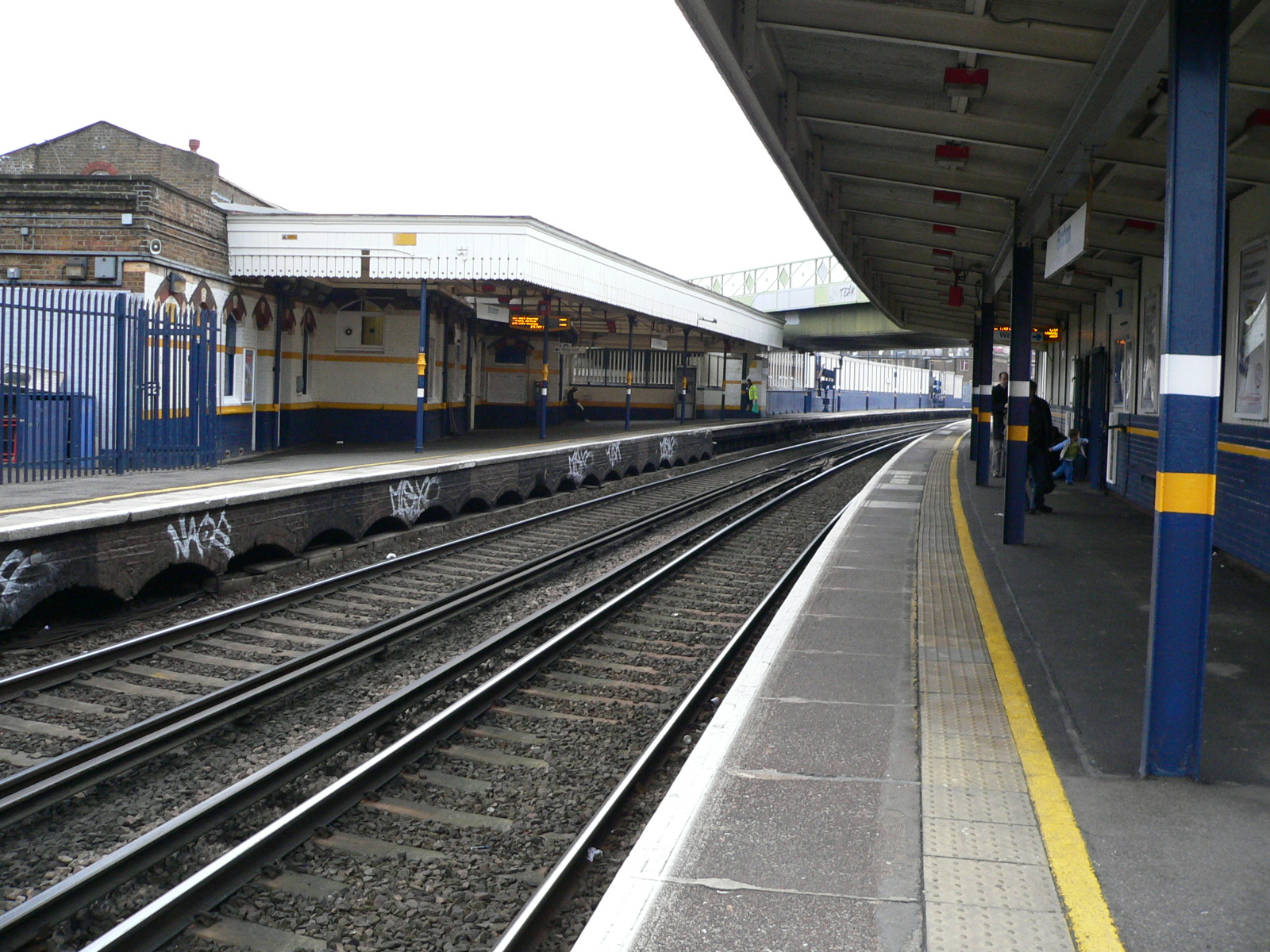 The platforms for South Eastern Trains services to and from London Victoria at Brixton railway station in south London. The bridge visible carries the South London Line, but there are currently no platforms on this line.